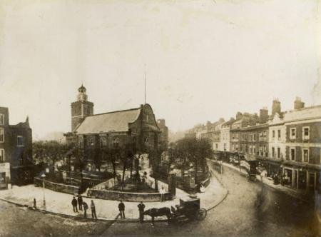 The old St Mary Abbots Church , Kensington , London shortly for it was demolished to make way for the current church.